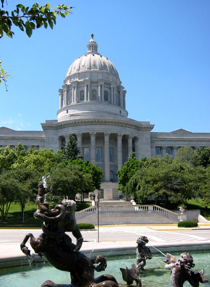 Missouri State Capitol, Jefferson City, Missouri (north side)